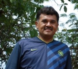 Vishweshwara Bhat, Editor of Kannada Prabha, a Kannada Newspaper and Suvarna News (A TV News Channel) in Karnataka, India.